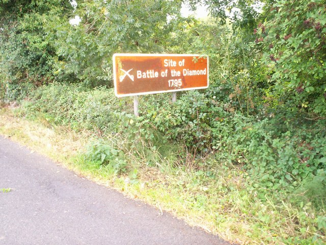 The Sign marking the Site of the Battle of the Diamond, 1795. For a number of years leading up to 1795, there was open hostility on the part of Roman Catholics or Defenders towards their Protestant neighbours. Things came to a head in 1795 when the Protestants heard of the Defenders plan to burn all the Protestant homes in the Richhill Kilmore and Loughgall districts. A battle then ensued at this location, and rival sectarian gangs, the Catholic Defenders and Protestant Peep O'Day Boys fought a bloody skirmish called the Battle of the Diamond, that left around 80 people dead. This led to the formation of the first Orange lodges and the Orange Order as it is known today. The actual date of the Battle was September 21st. 1795. An annual service is held, marking the Battle, on the Sunday closest to that anniversary.